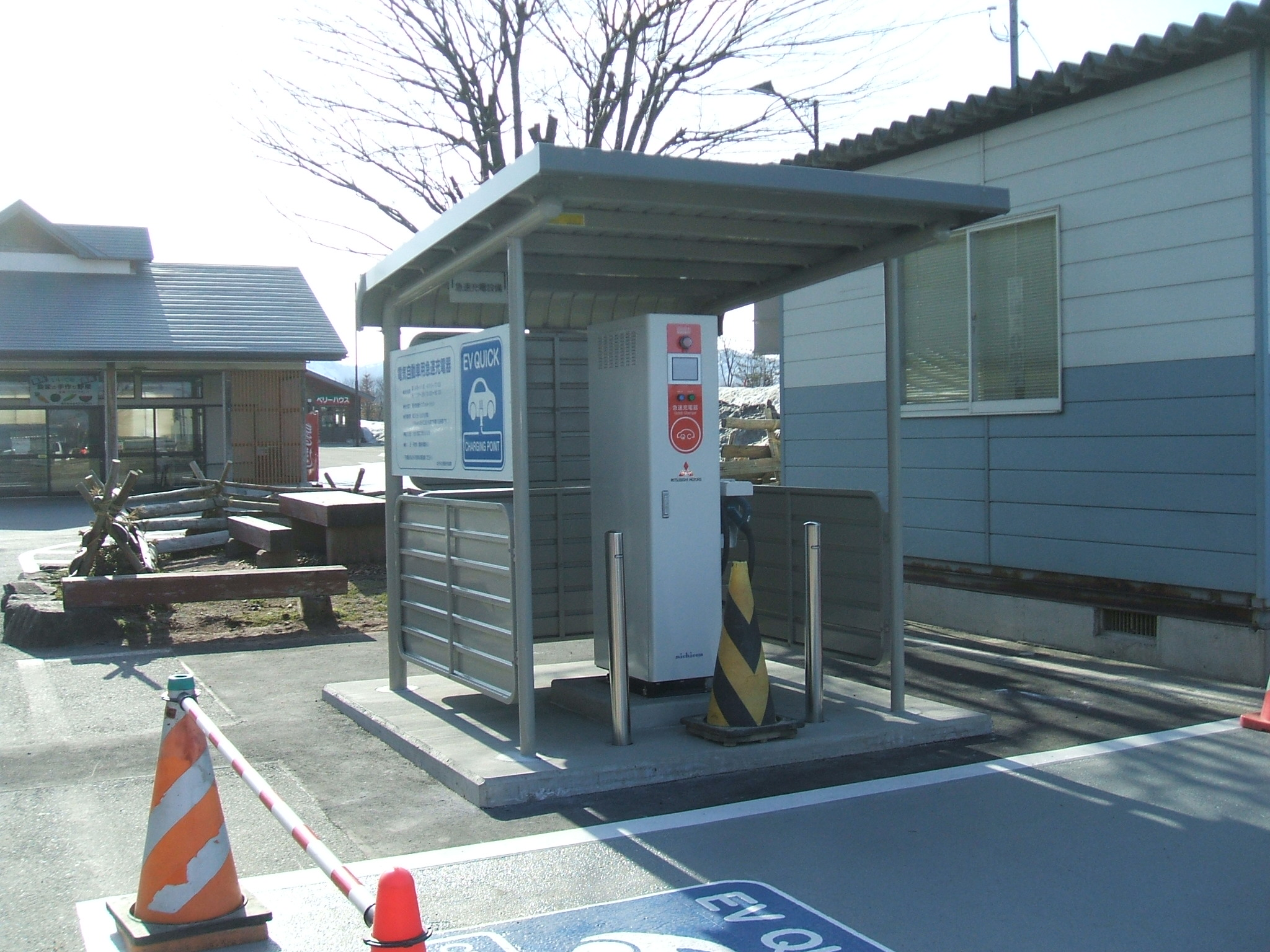 Power charging station for electric vehicles at Michinoeki Iide